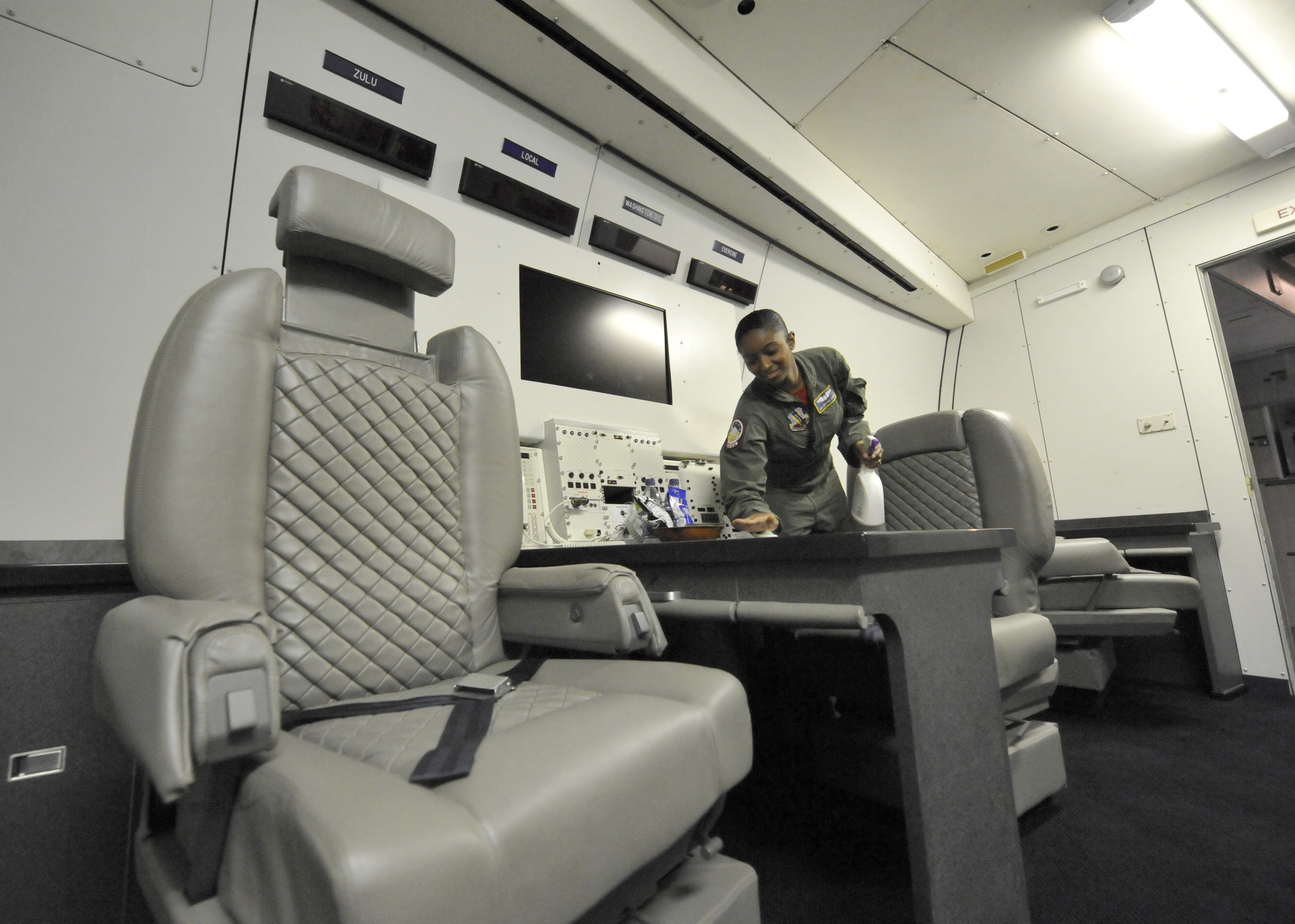 Staff Sgt. Krystal Lerohl, a flight attendant with the 1st Airborne Command and Control Squadron at Offutt Air Force Base, Neb., wipes off a table in the private quarters of an E-4B prior to a simulated alert mission. The E-4B serves as the National Airborne Operations Center for the president, secretary of defense and chairman of the Joint Chiefs of Staff. The aircraft passed a significant milestone this month by sitting alert constantly for more than 35 years. (U.S. Air Force photo/Lance Cheung)